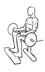 an exercise of calves